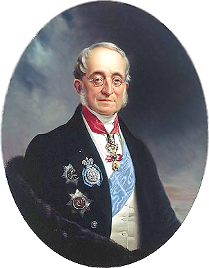 Karl Nesselrode (flopped).